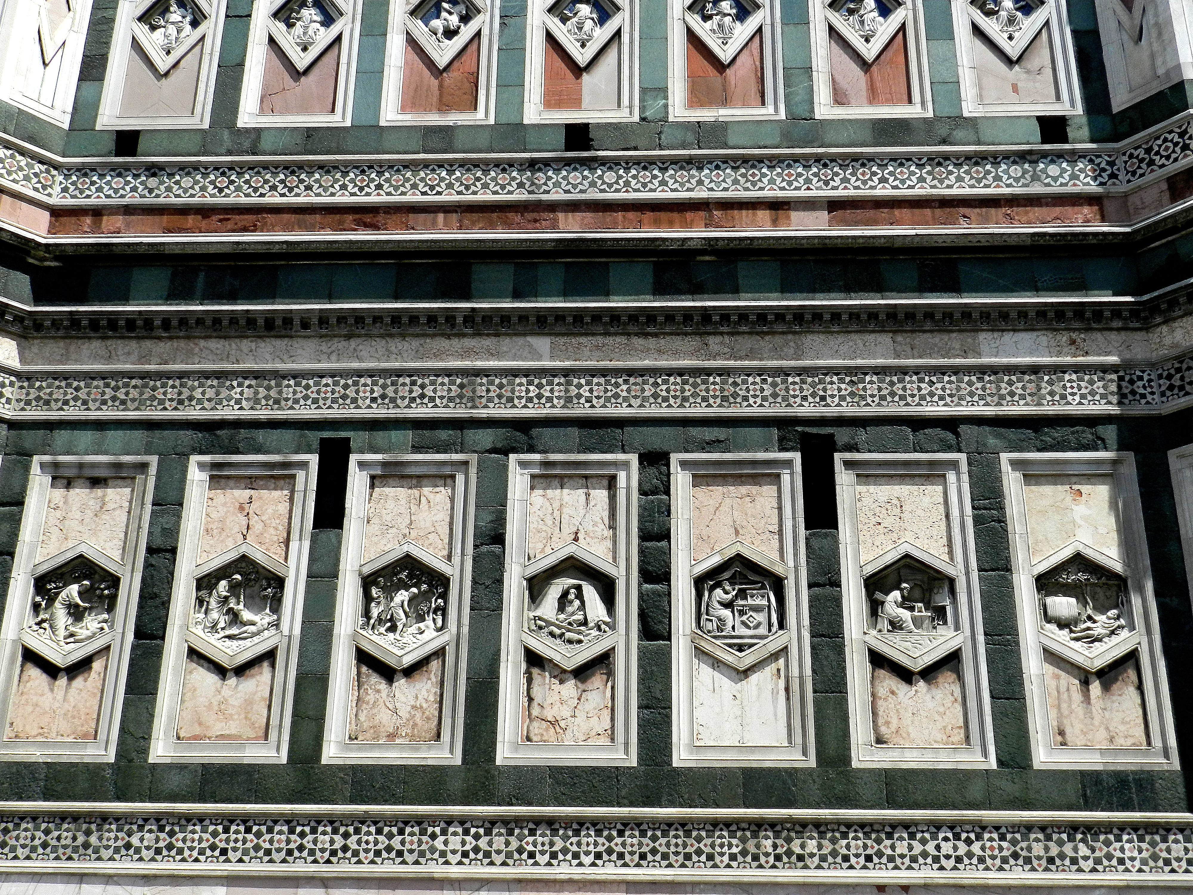 Giotto's tower's detail Santa Maria del Fiore (Florence)